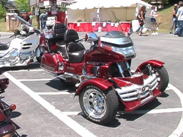 Gold Wing Reverse Trike by Tim Shockley from St Louis at Honda Hoot 2007 Reverse trikes are more stable, especially during emergency maneuvers Taken by John Lee and Pirate News TV and released to the public domain